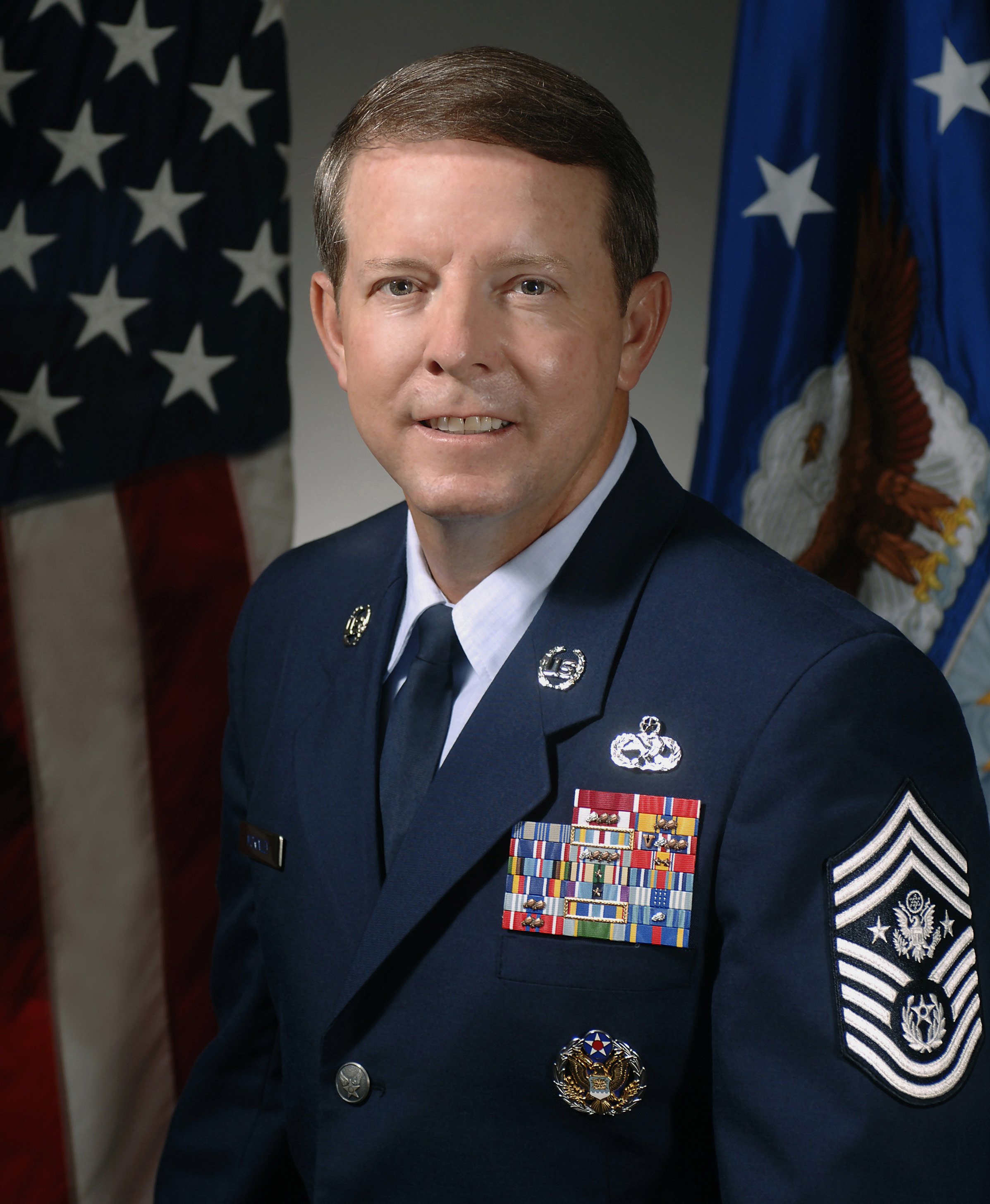 Chief Master Sergeant of the Air Force Rodney J. McKinley is the current CMSAF of the United States Air Force.